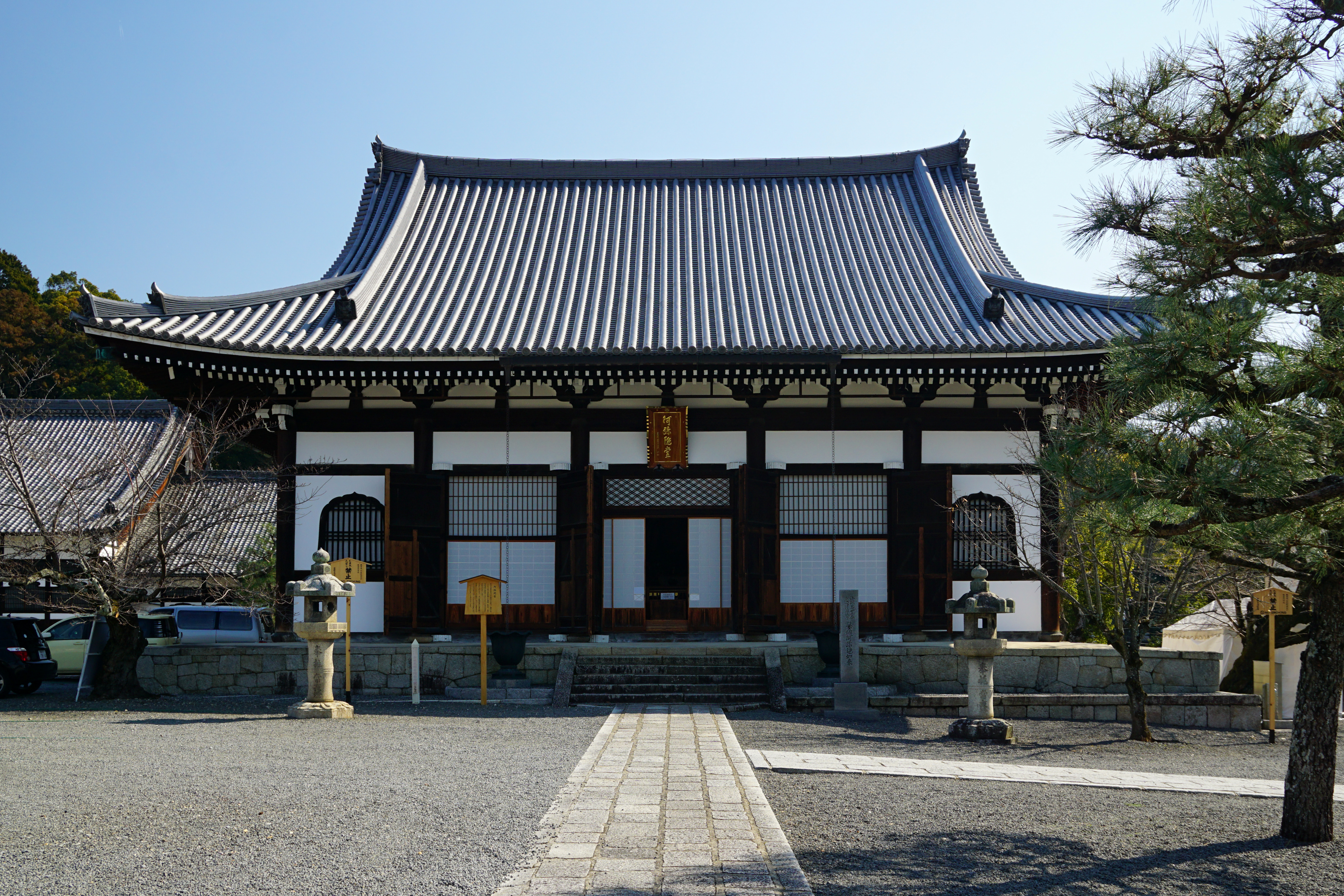 Konkaikōmyō-ji in Kyoto, Kyoto prefecture, Japan